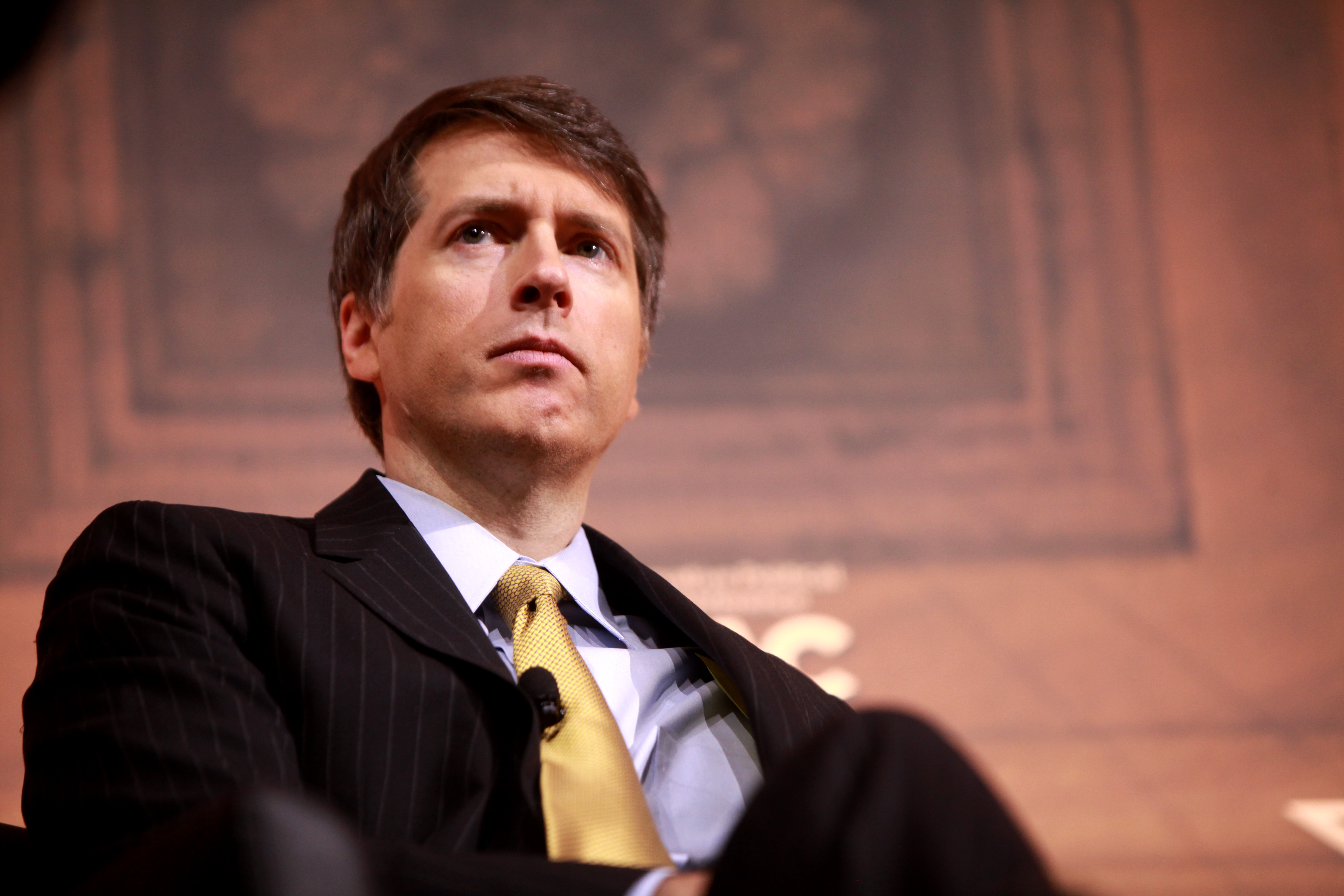 Rich Lowry at the 2014 Conservative Political Action Conference (CPAC) in National Harbor, Maryland, March 8, 2014